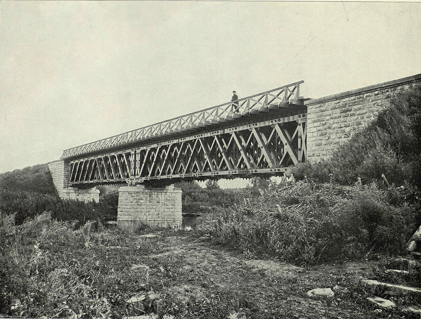 «Great Path - Views of Siberia and Great Siberian Railway» book, 1899